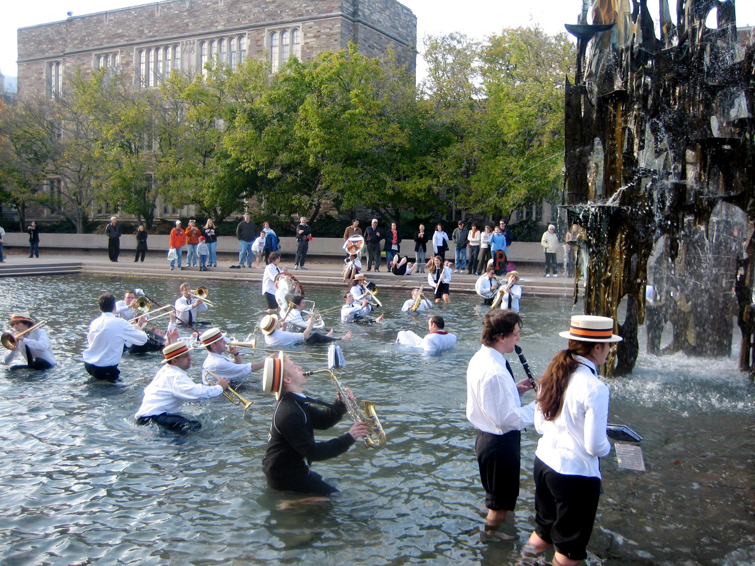 The Princeton University Band lobstering in the Woodrow Wilson School fountain